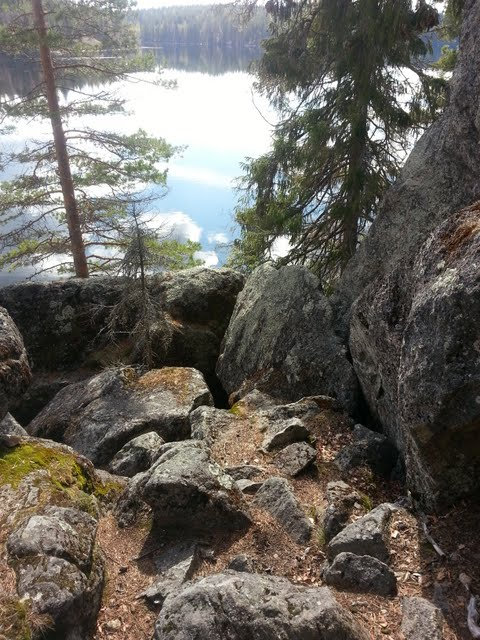 Around Sulkava (Linnavuori)